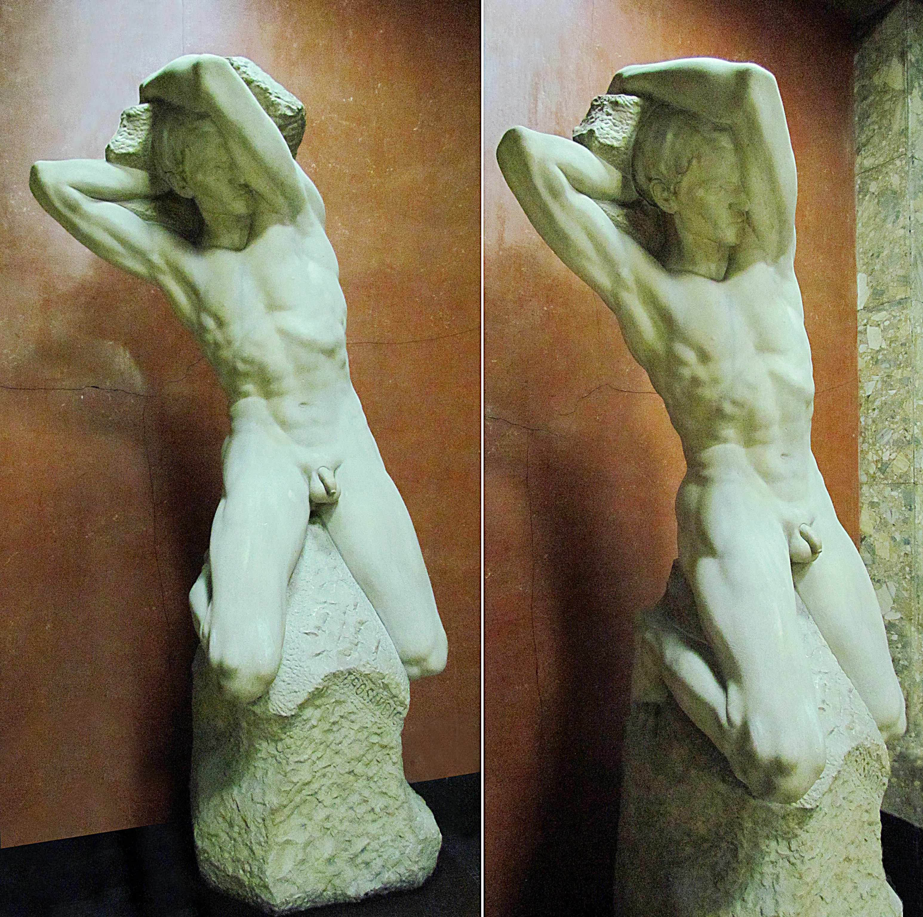 Toma Rosandic. Stone Thrower (1935), National museum, Belgrade